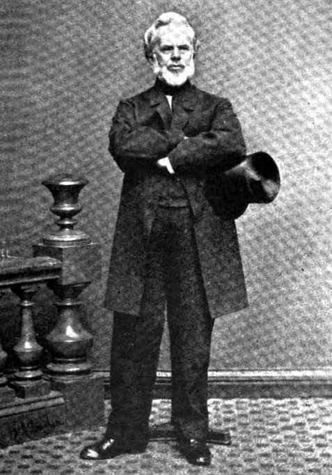 Phineas Parkhurst Quimby (1802–1866), New England mentalist